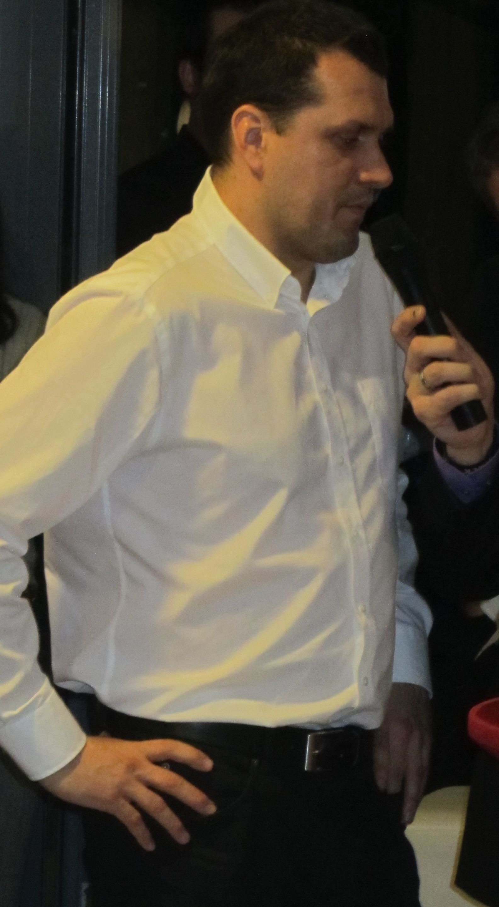 the Slovak volleyball coach Marek Rojko, 2014 in Aachen